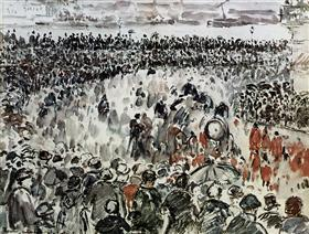 Work by Camille Pissarro